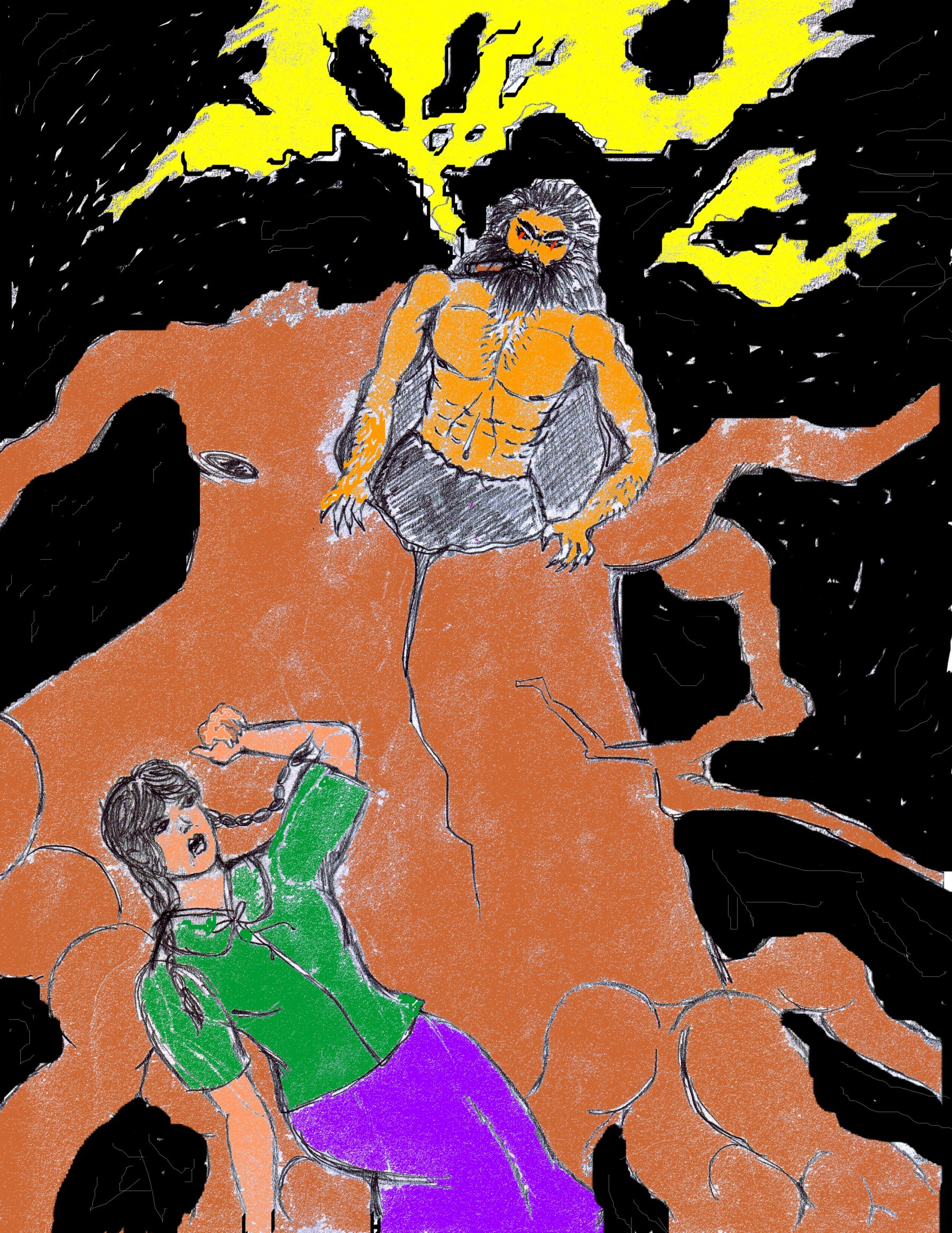 Illustration of a kapre, depicted here scaring away a lass from atop his tree dwelling, and with a lit tobacco placed in his mouth. This illustration was created using an HB pencil for the sketch and line-drawing. Color was incorporated digitally. This drawing was also electronically enhanced.